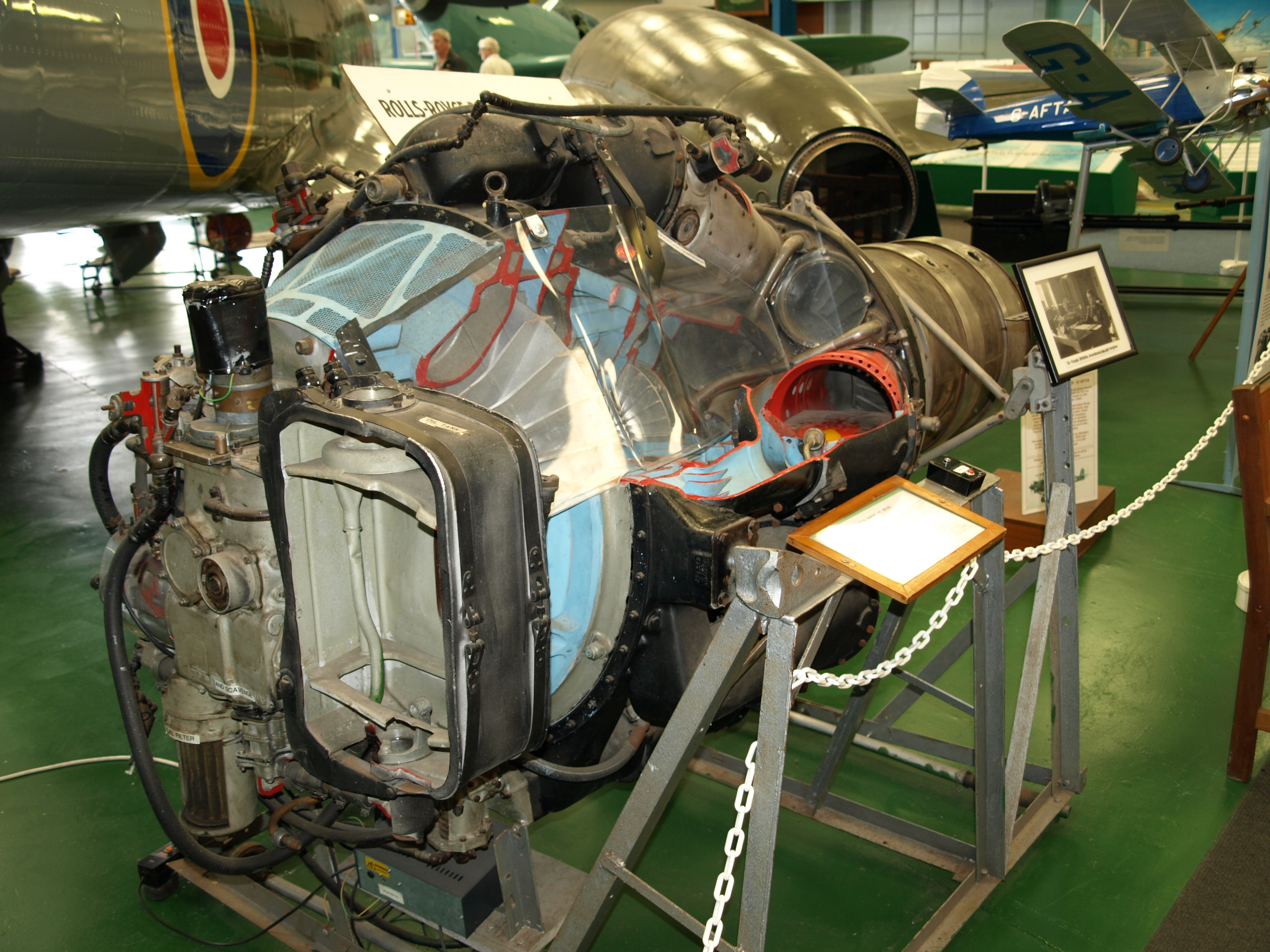 Rolls-Royce Derwent turbojet engine on display at the Tangmere Military Aviation Museum, this exhibit is sectioned and motorised.